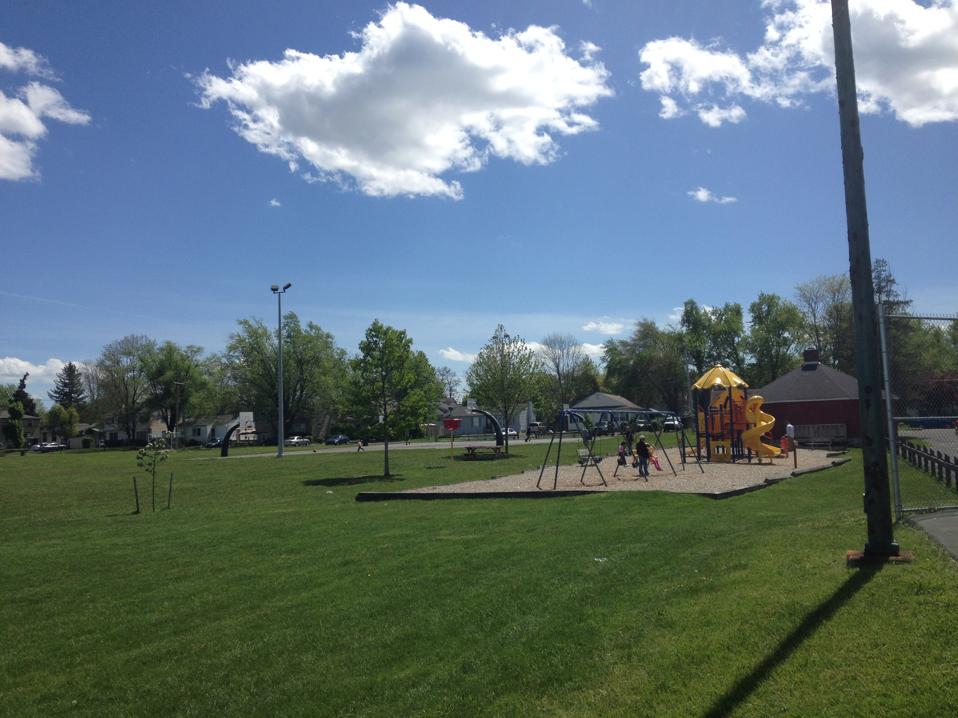 Crestmont Park in the Crestmont section of Abington Township, Montgomery County, Pennsylvania.